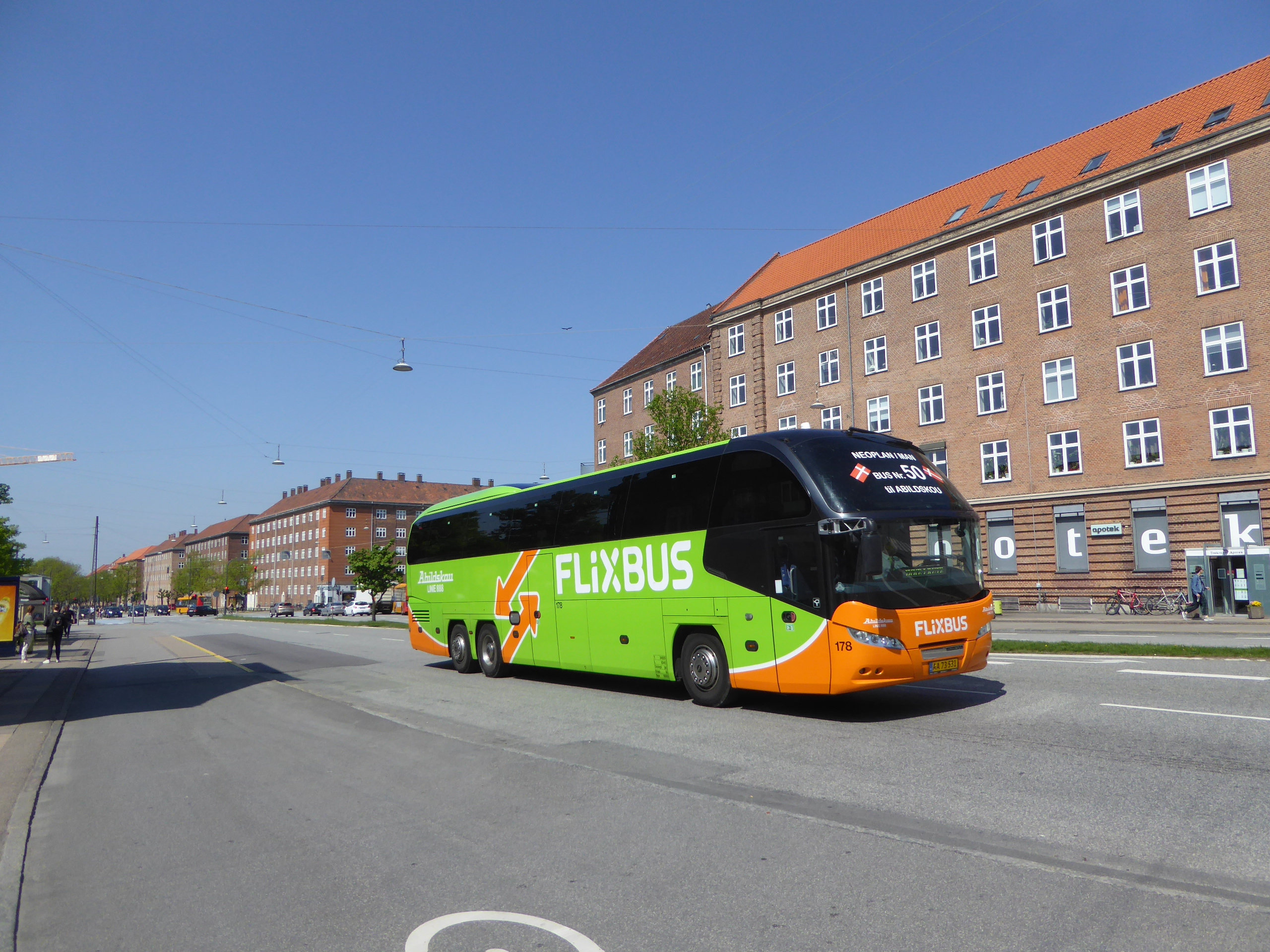 Abildskou coach operating for FlixBus on Vigerslev Allé at Toftegårds Plads in Valby in Copenhagen. The bus is the 50th Neoplan bus delivered to Abildskou.